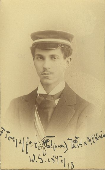 Photographic portrait of Friedrich Töpffer